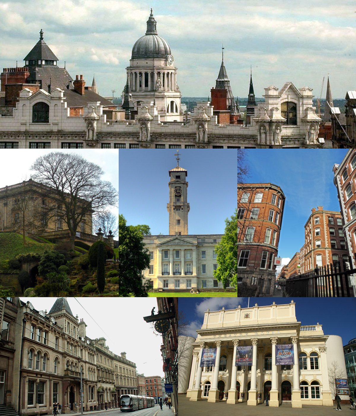 Montage of the City of Nottingham, England. From top left: Skyline of the Old Market Square area, including the dome of the Nottingham Council House Nottingham Castle University of Nottingham Street scene in the Lace Market Nottingham Express Transit tram in Victoria Street Theatre Royal Sources: File:Nottingham skyline.jpg by Willednic File:Nottingham Castle Gardens.jpg by Char File:0130 - England, Nottingham, Trent Building HDR -HQ-.jpg by Barry Mangham File:Nottingham Lace Market.jpg by [Duncan] File:Tram on Victoria Street, Nottingham.jpg by brianfagan File:Nottingham MMB 73 Theatre Royal.jpg by mattbuck